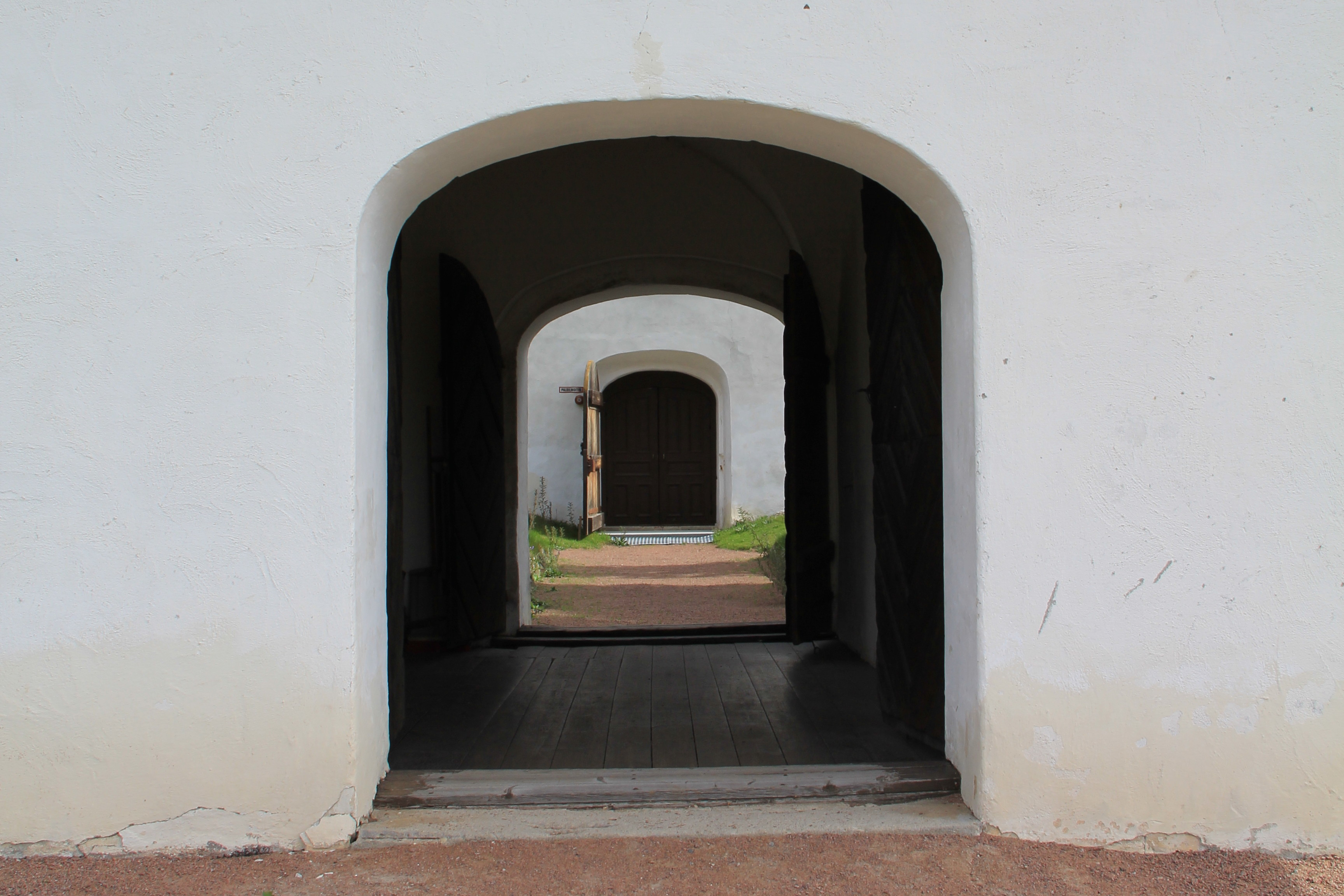 Askainen church, Askainen, Masku, Finland. - Church door seen through bell tower.